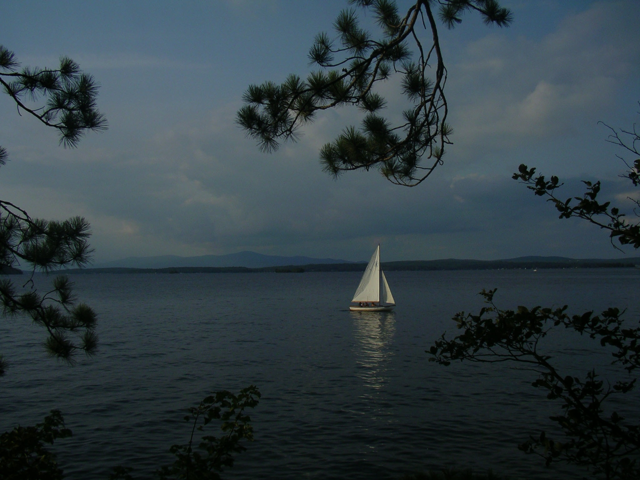 Kabeyun Town-class sailboat with Mount Shaw in the background.